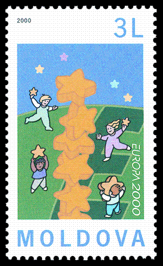 Stamp of Moldova. 50 years of Robert Schuman’s declaration. The declaration laid the foundation of the European Union.